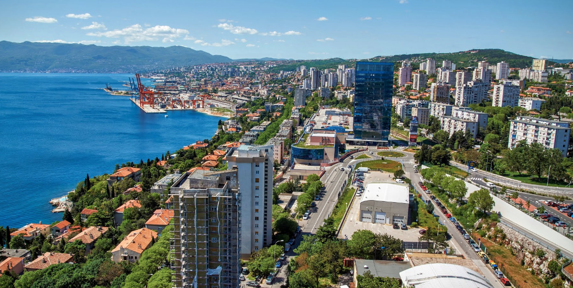 Rijeka has the biggest container port in Croatia